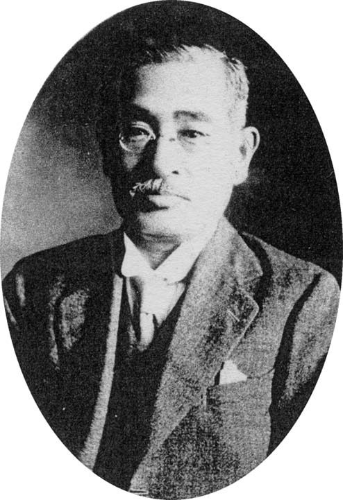 Mr. Genji Matsuda.